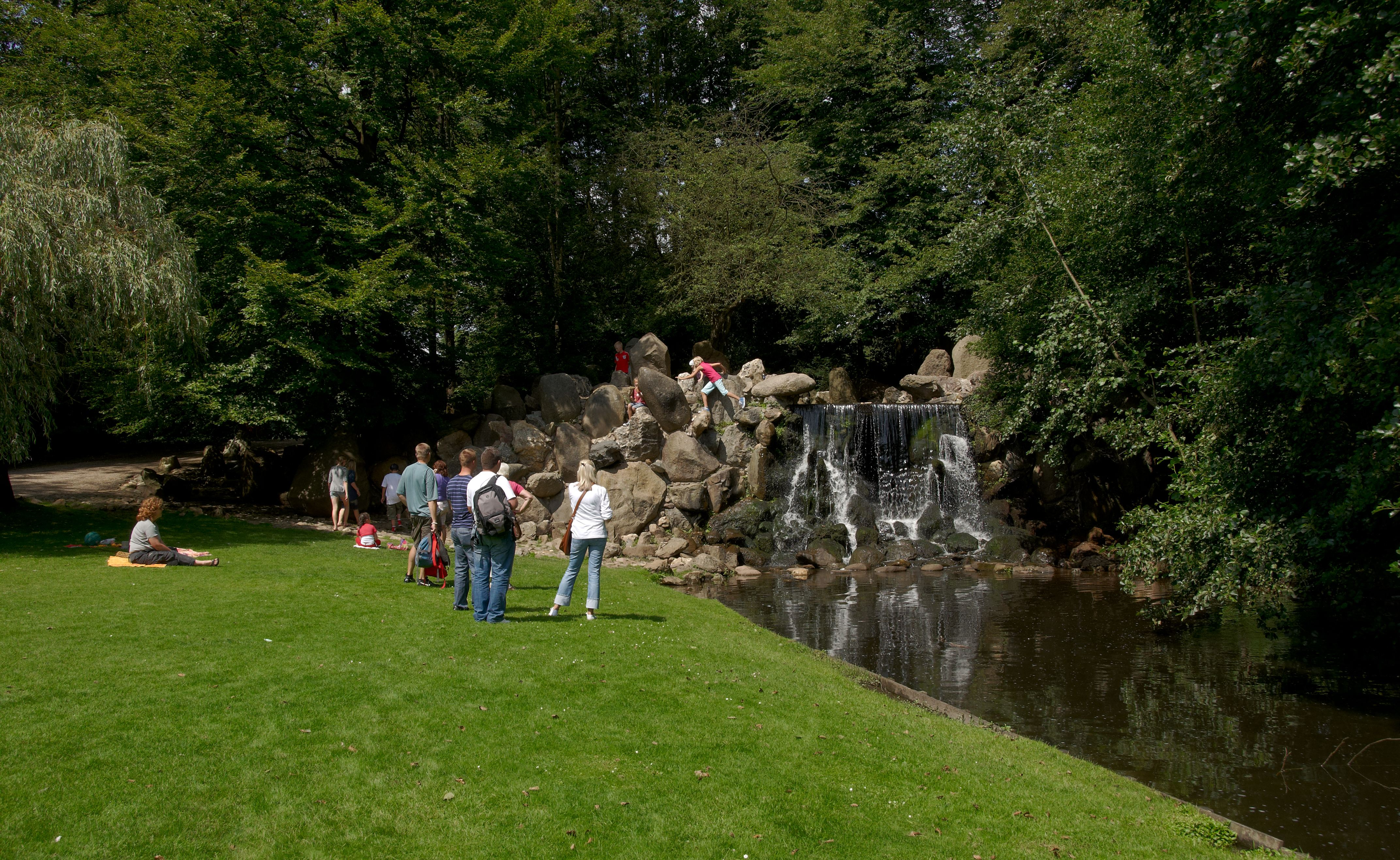 Artificial waterfall in Park Sonsbeek, Arnhem, the Netherlands